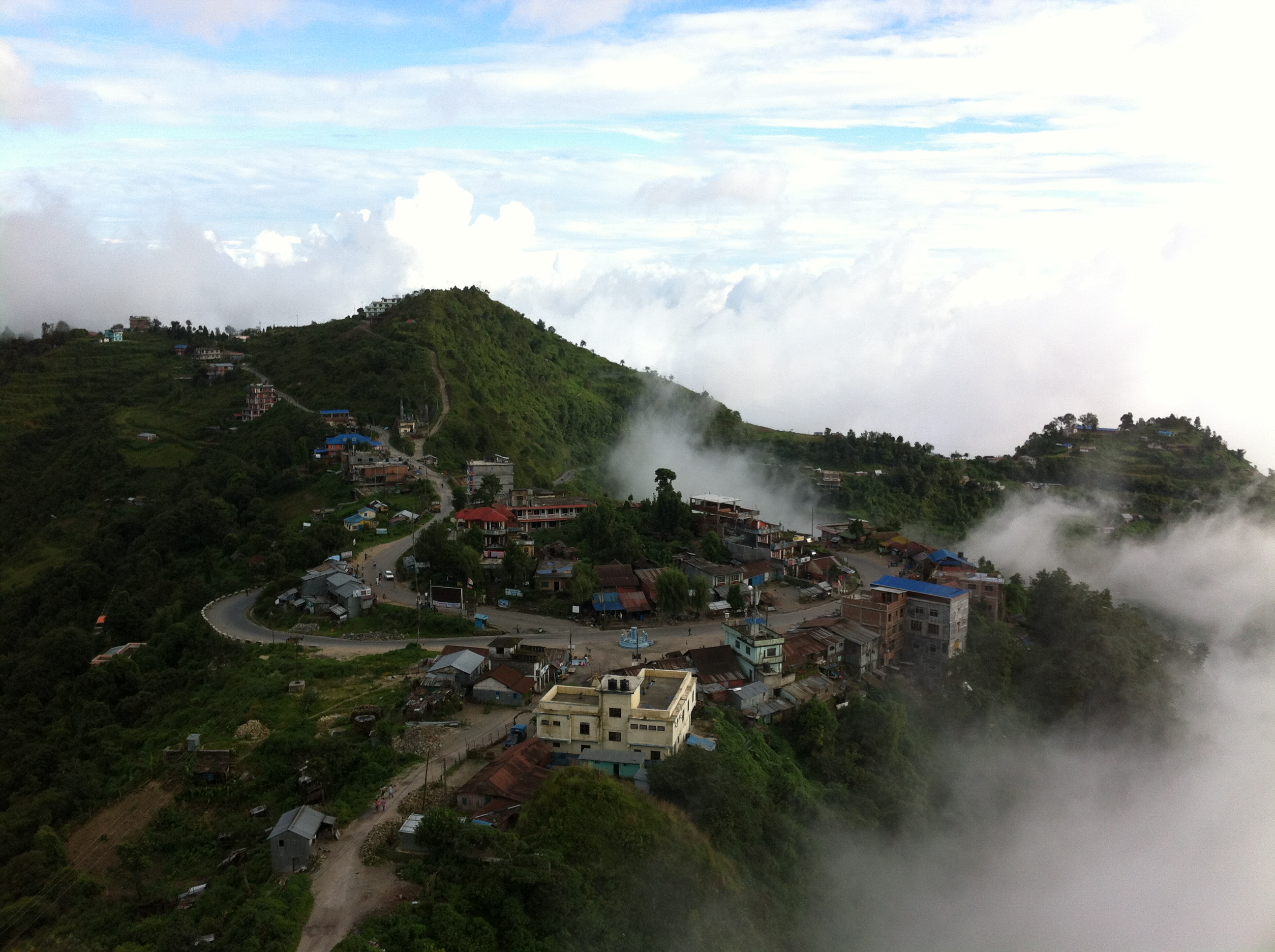 Bhedetar